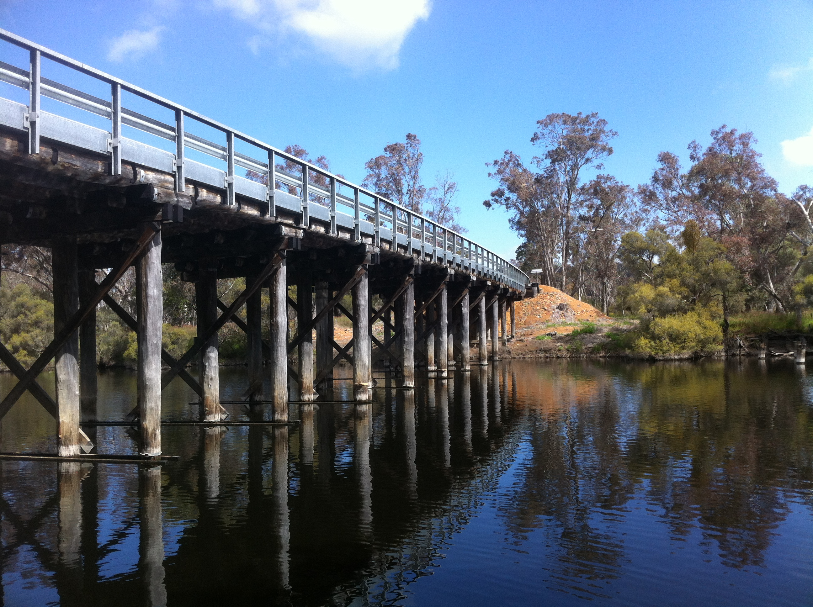 Trigwell Bridge near Moodiarrup on Arthur River-Boyup Brook Road over the Blackwood River